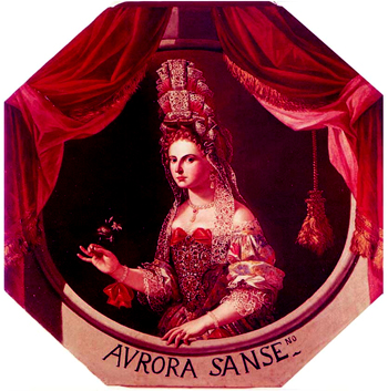 Portrait of Aurora Sanseverino